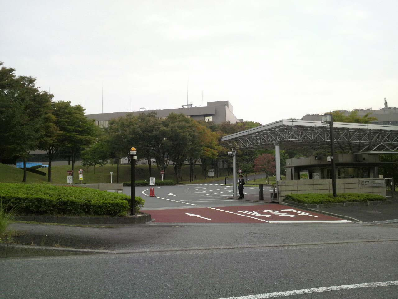 NTT ATUGI